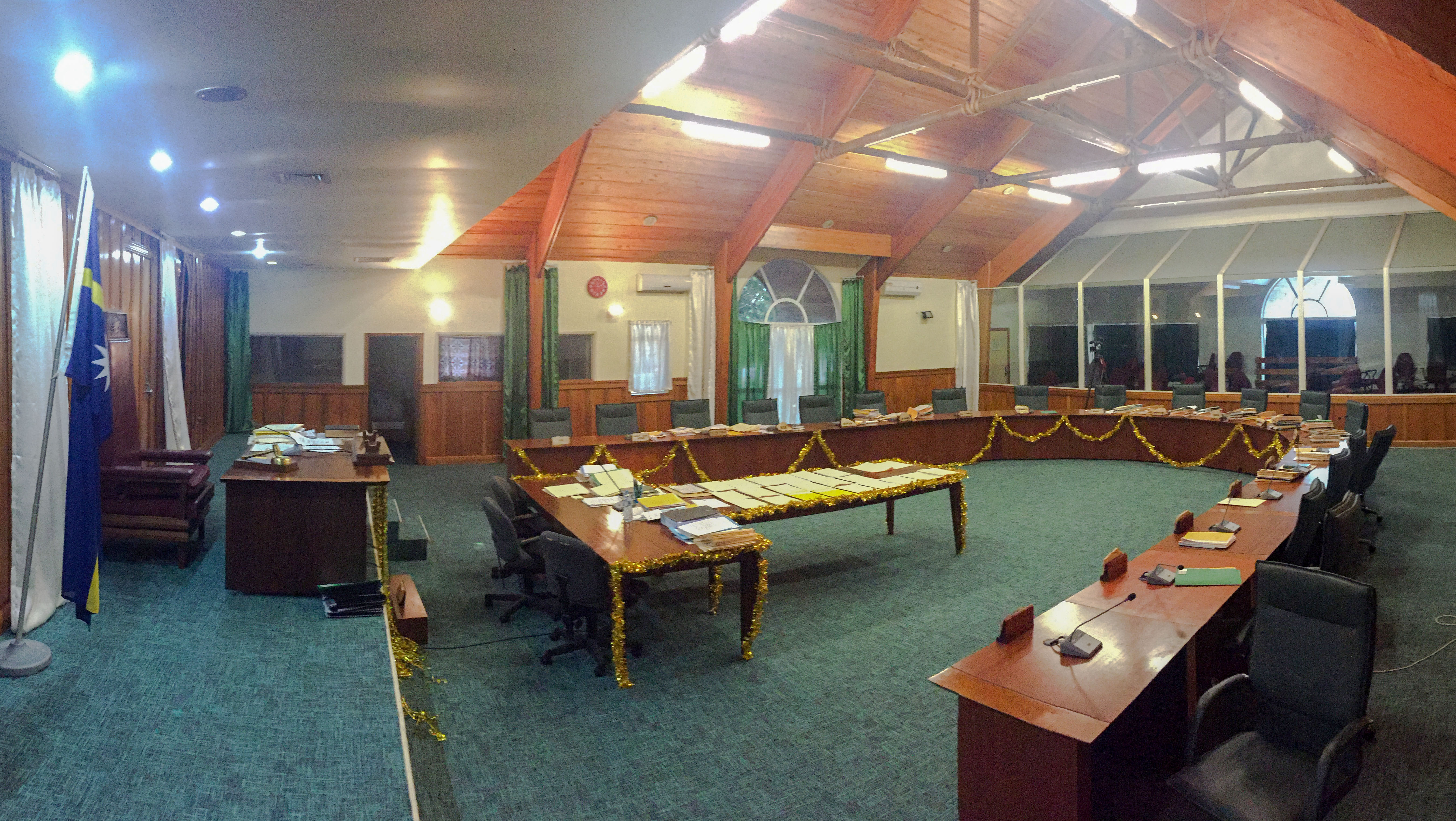 Debating chamber of the Nauru Parliament. President's seat is closest to the camera.